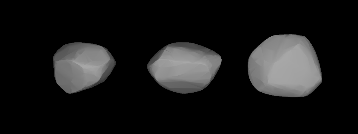 A three-dimensional model of 242 Kriemhild that was computed using light curve inversion techniques.